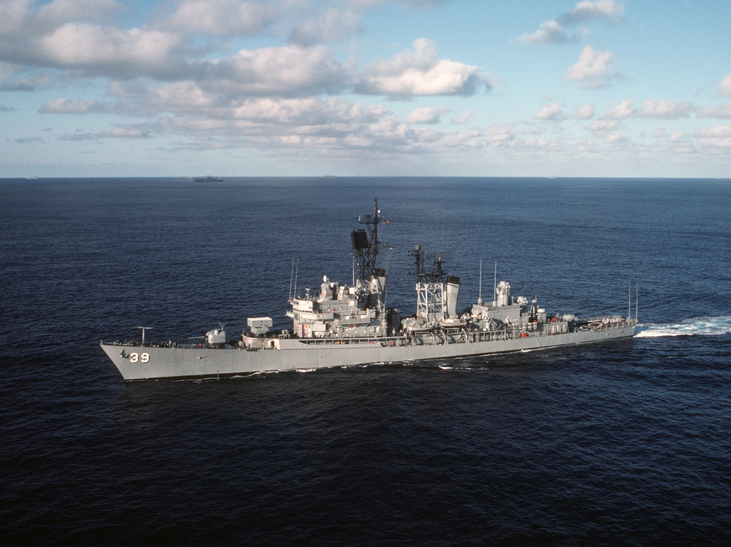 The U.S. Navy guided missile destroyer USS Macdonough (DDG-39) underway with the aircraft carrier USS John F. Kennedy (CV-67) battle group on 12 August 1988. The ship, which wass part of Task Group 24.4, was in an 18-ship formation that was transiting the North Atlantic Ocean to the Mediterranean Sea.